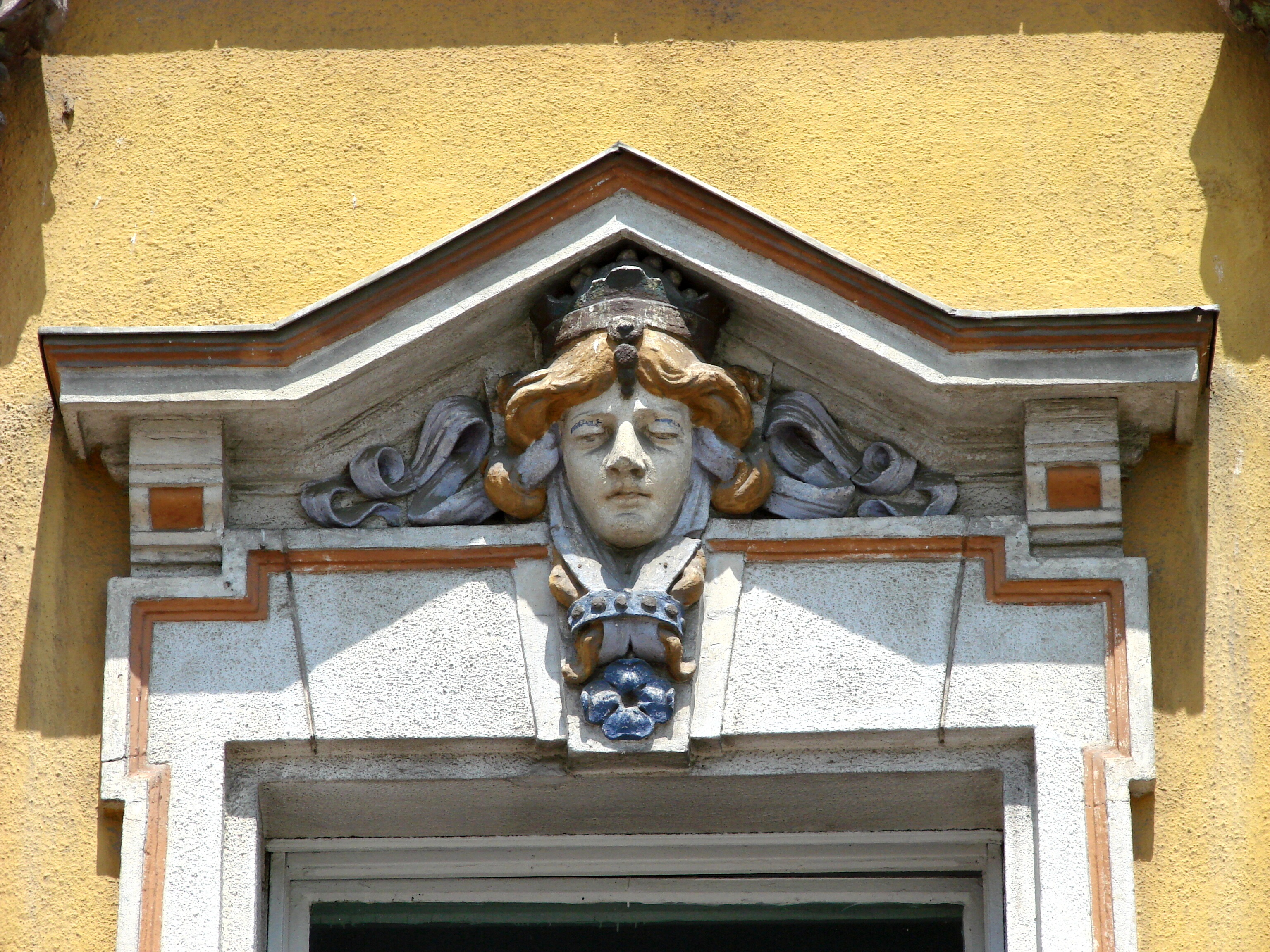 Ancient facade, Timisoara, Romania. June 2007.